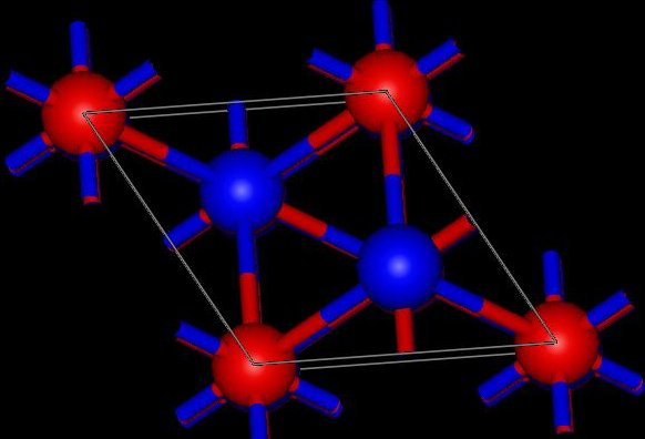 Room-temperature structure of Tl2O viewed along the high-symmetry c axis. Red atoms are oxygens